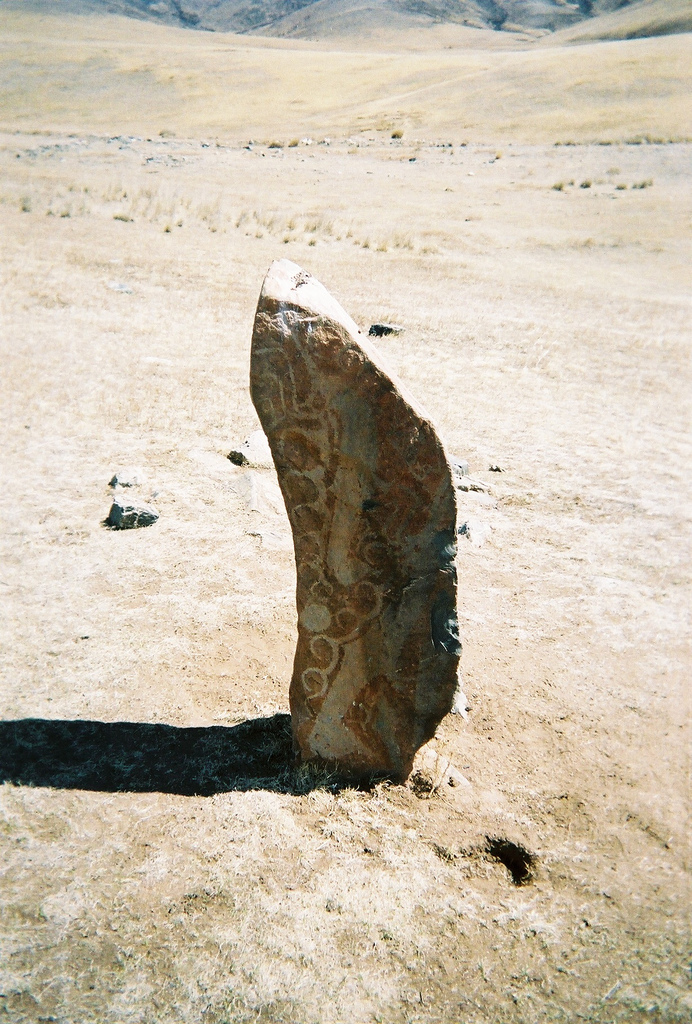 mysterious, from the very distant pastdeer stone